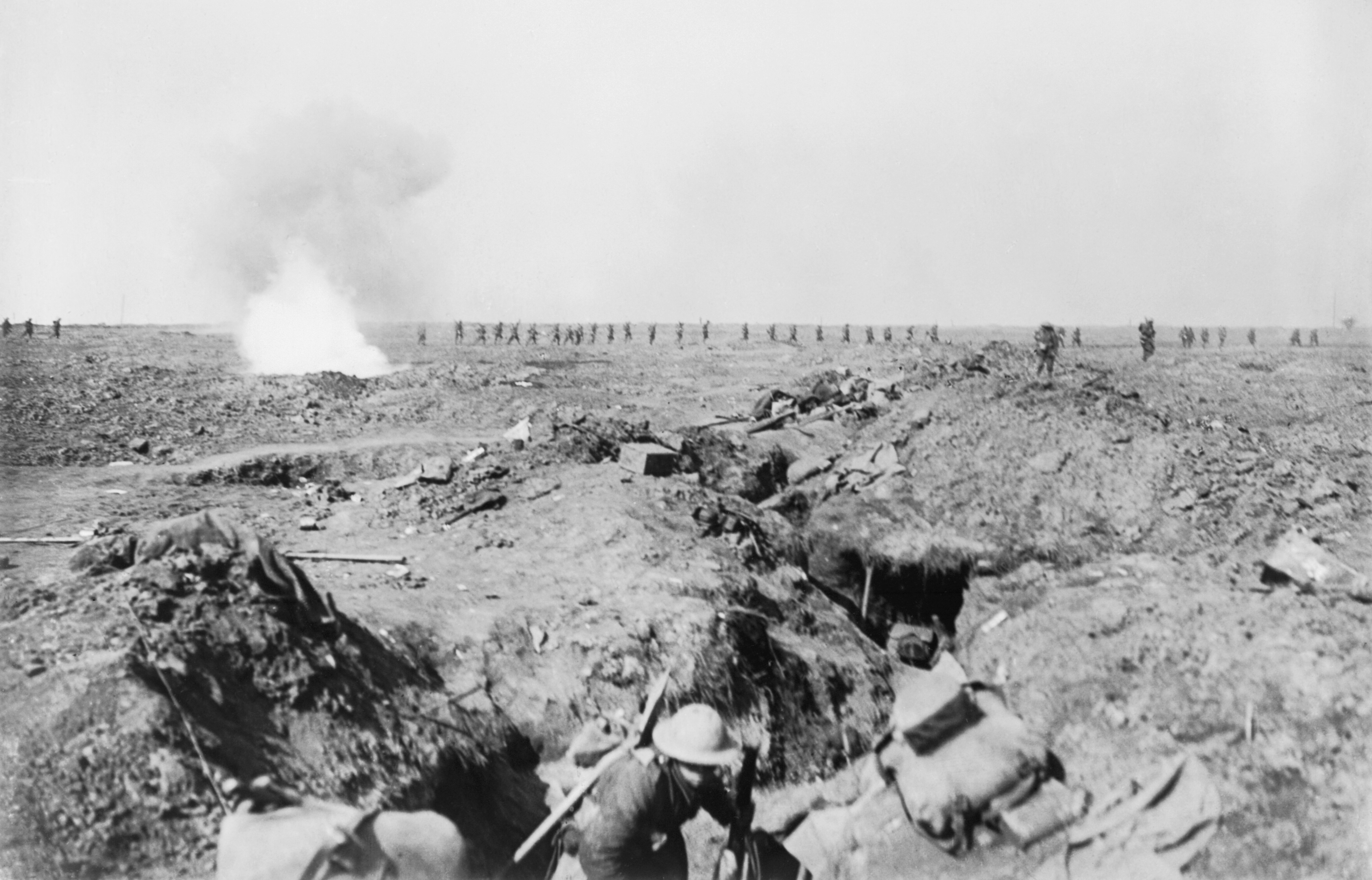 The Battle of Ginchy, Somme, France. British supporting troops move up in single file to support the attack as a shell explodes.